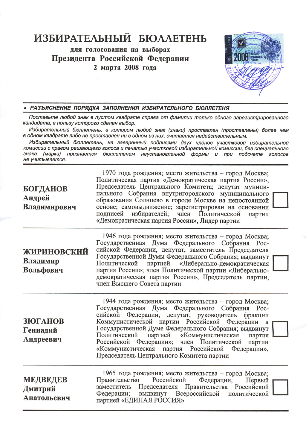 Scanned ballot in presidential election Russia on March 2, 2008. The bulletin was issued on March 2, 2008 at the polling station № 1659 the Nizhny Novgorod region of Nizhny Novgorod and put beyond. According to the Electoral Commission site Nizhny Novgorod region with a single bulletin plot had not been made..